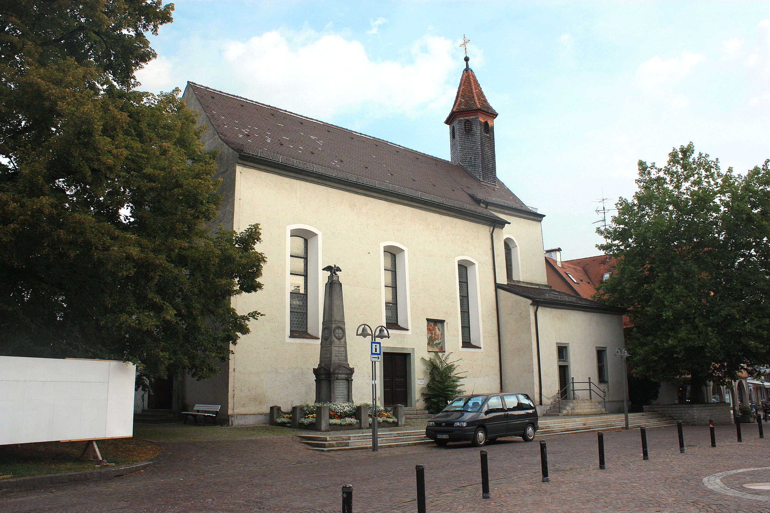 Tettnang, the St. George Chapel, in front of them the war memorial